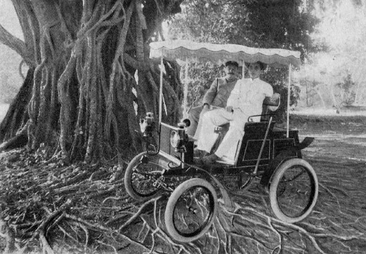 Wenkelmobil built on Java about 1901